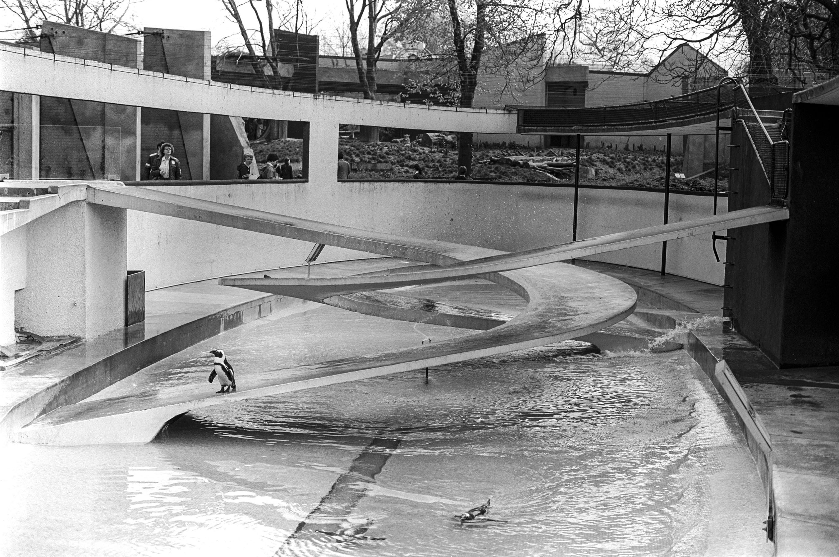 Penguin Pool, Zoological Gardens NW1, Regents Park by Lubetkin & Tecton 1934 (Photographed circa 1978)